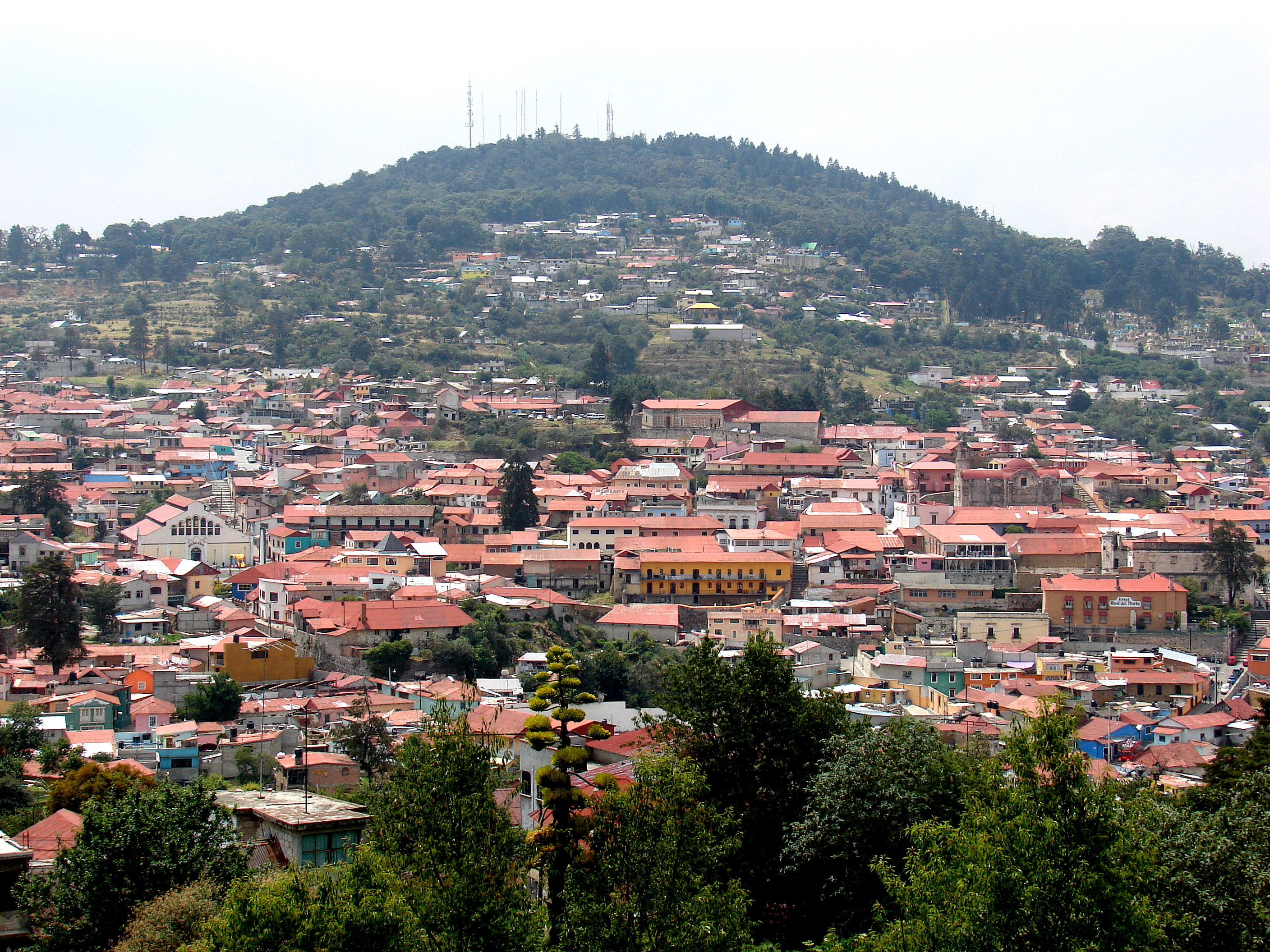 Overview of Real del Monte, Hidalgo, México.